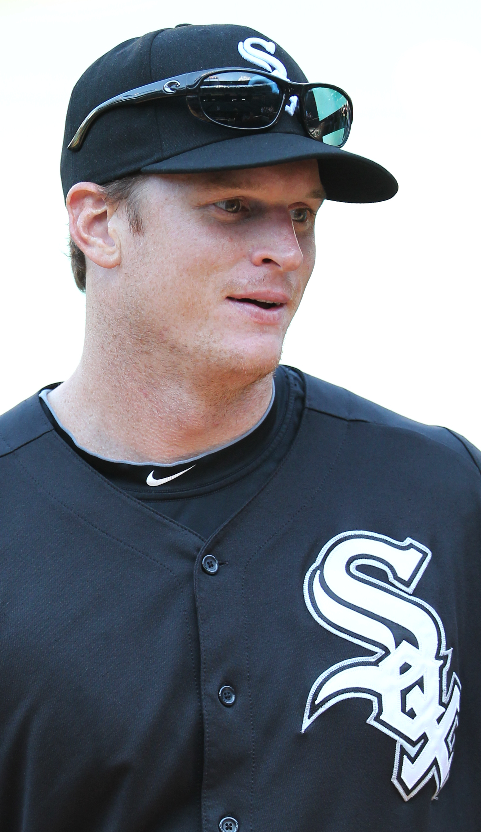 Gavin Floyd on August 10, 2011